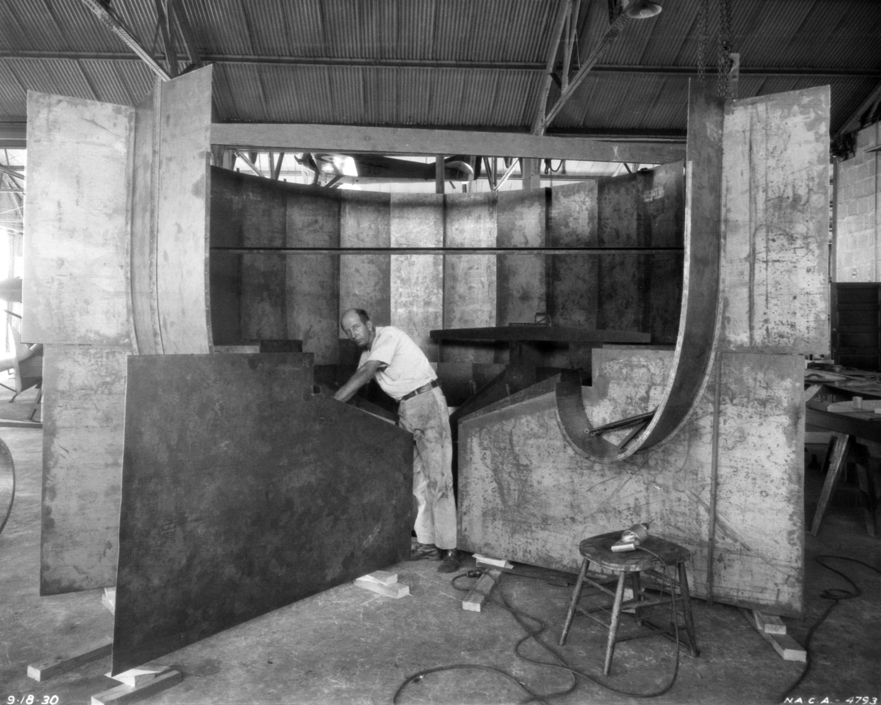 Construction of 5 Foot Vertical Wind Tunnel. The 5 Foot Vertical Wind Tunnel was built to study spinning characteristics of aircraft. It was an open throat tunnel capable of a maximum speed of 80 mph. NACA engineer Charles H. Zimmerman designed the tunnel starting in 1928. Construction was completed in December 1929. It was one of two tunnels which replaced the original Atmospheric Wind Tunnel (The other was the 7x10-Foot Wind Tunnel). In NACA TR 387 (p. 499), Carl Wenzinger and Thomas Harris report that "the tunnel passages are constructed of 1/8-inch sheet iron, stiffened with angle iron and bolted together at the corners. The over-all dimensions are: Height 31 feet 2 inches; length, 20 feet 3 inches; width, 10 feet 3 inches.